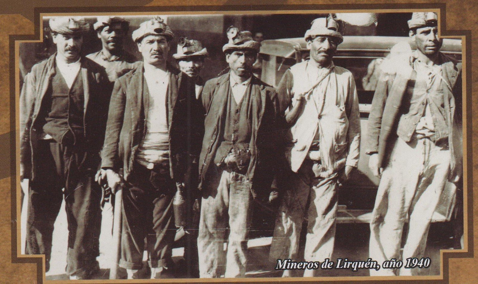 Antiguos mineros de Lirquén, década del 40´